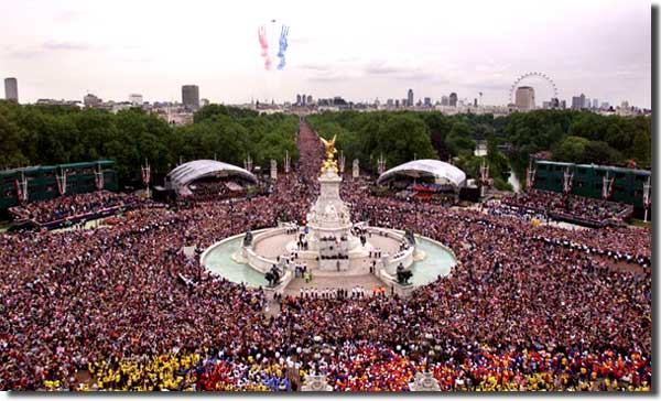 Crowds gathered on the Mall to celebrate the birthday of British legend Mike Batt.